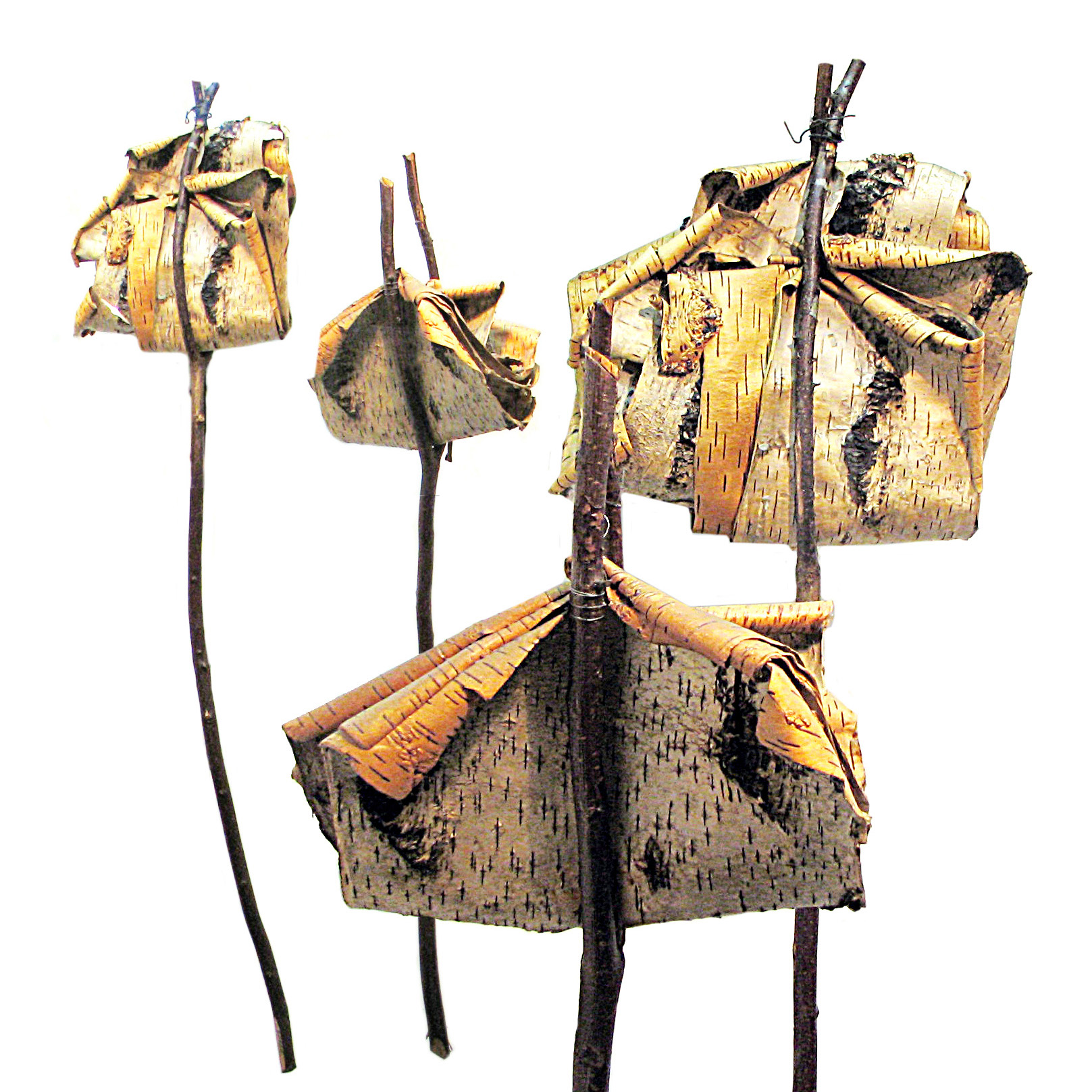 Lile torch